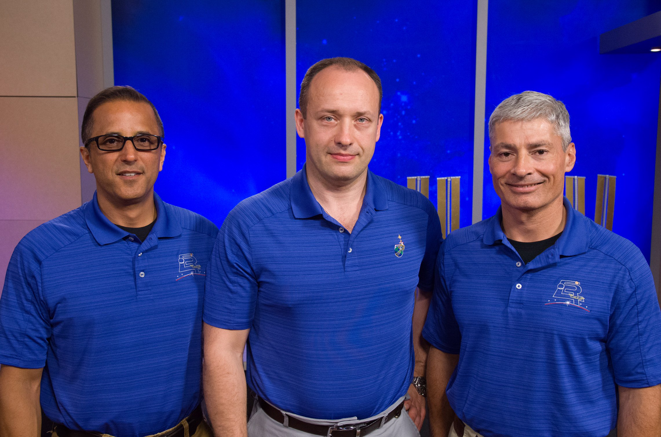 Future station crew members due to launch September… Joe Acaba, Alexander Misurkin and Mark Vande Hei.